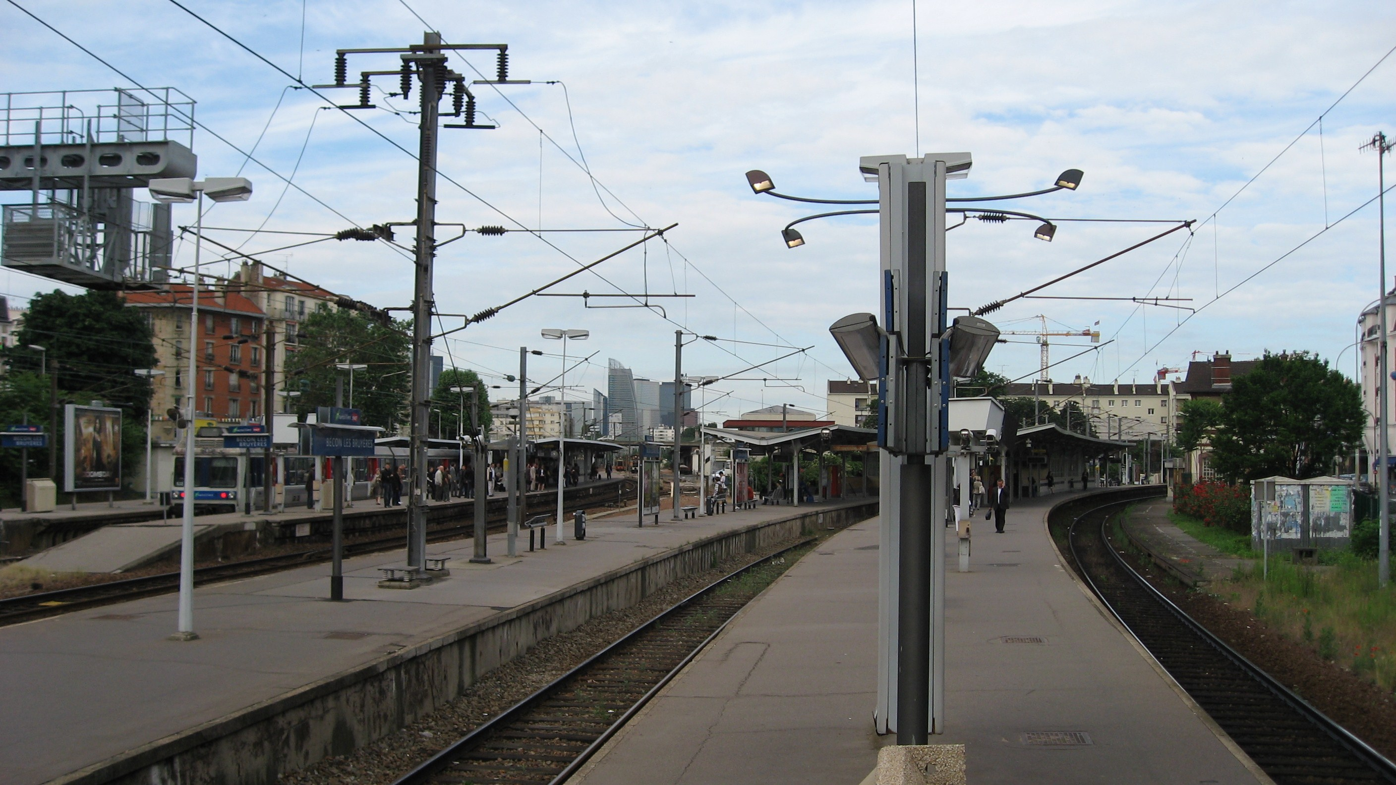 Railroads of Gare de Bécon-les-Bruyères